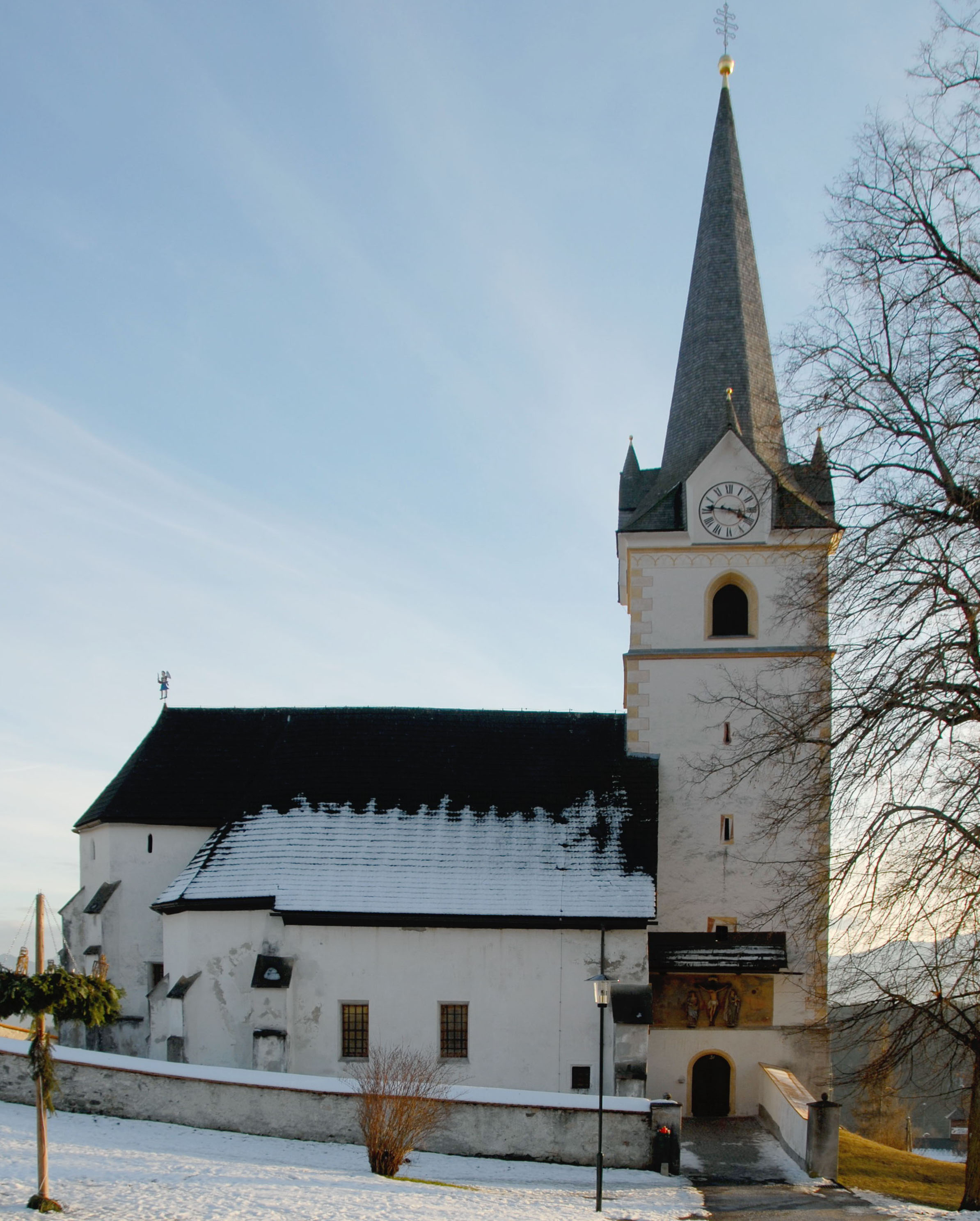 Parish church Saints Philip and James at Koestenberg, market town Velden am Woerther See, Carinthia, Austria, EU